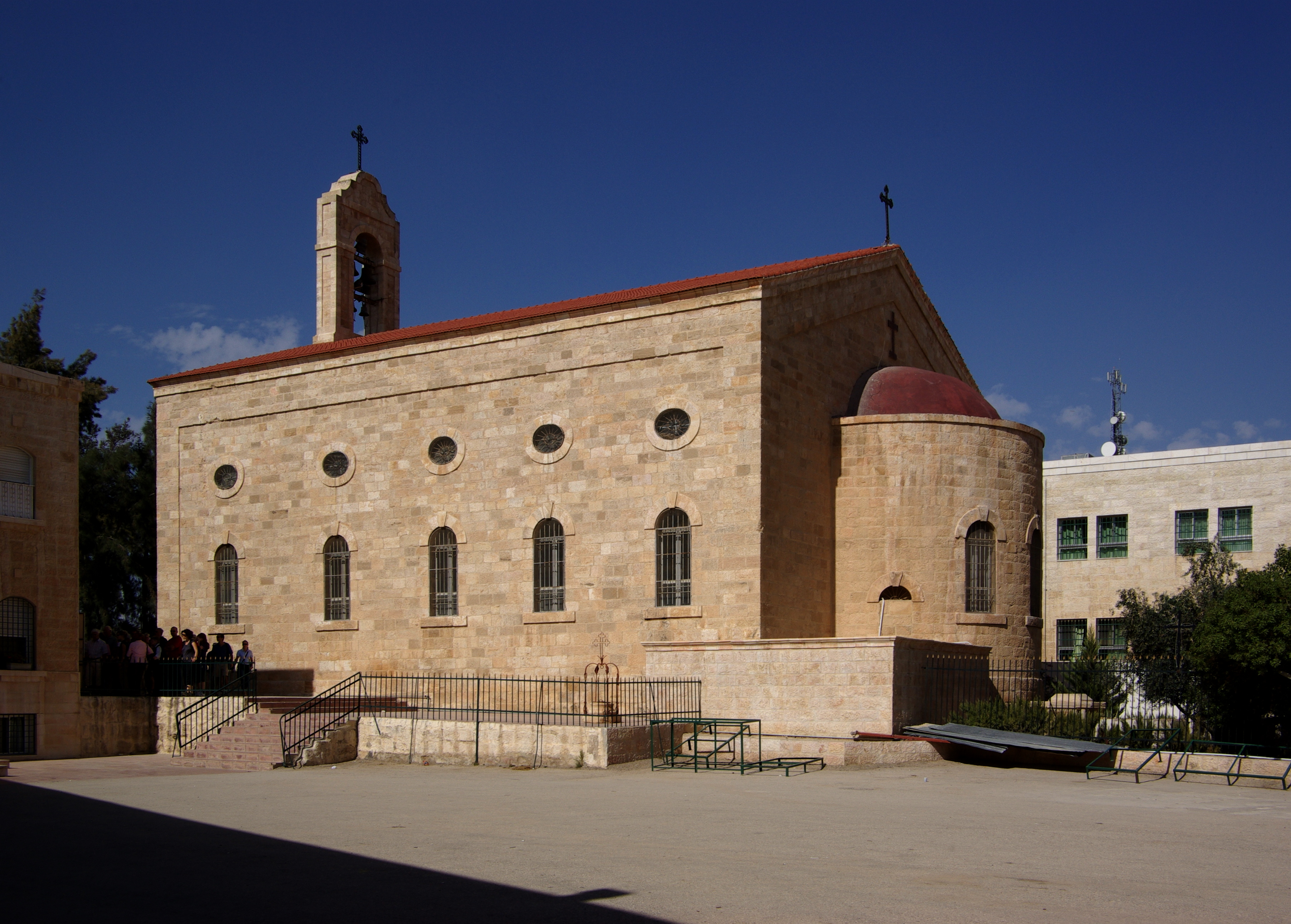 Madaba, St. Georg church, which contains the famous mosaic floor